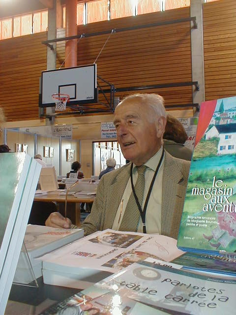 Joseph Michel, Belgian minister and writer Walon: Joseph Michel al fôre ås lives di Mson